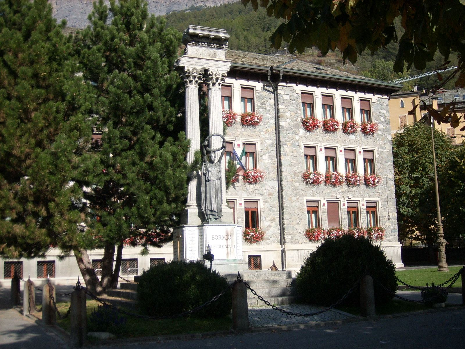 House and Monument in Bormio, Italy